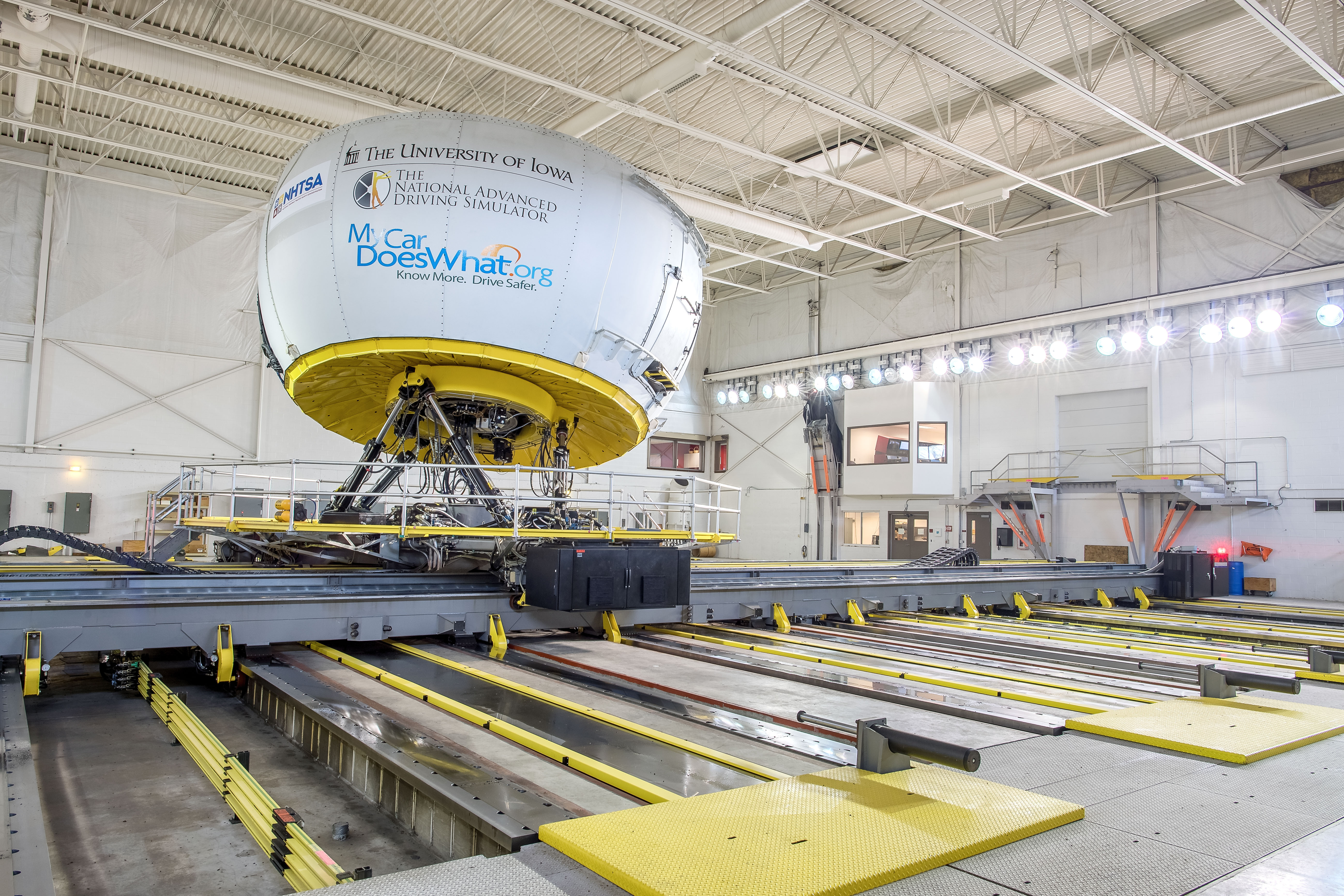 NADS-1 dome